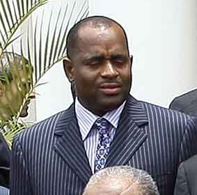 Prime Minister of Dominica Roosevelt Skerrit at the 5th Summit of the Americas in Port-of-Spain, Trinidad and Tobago.